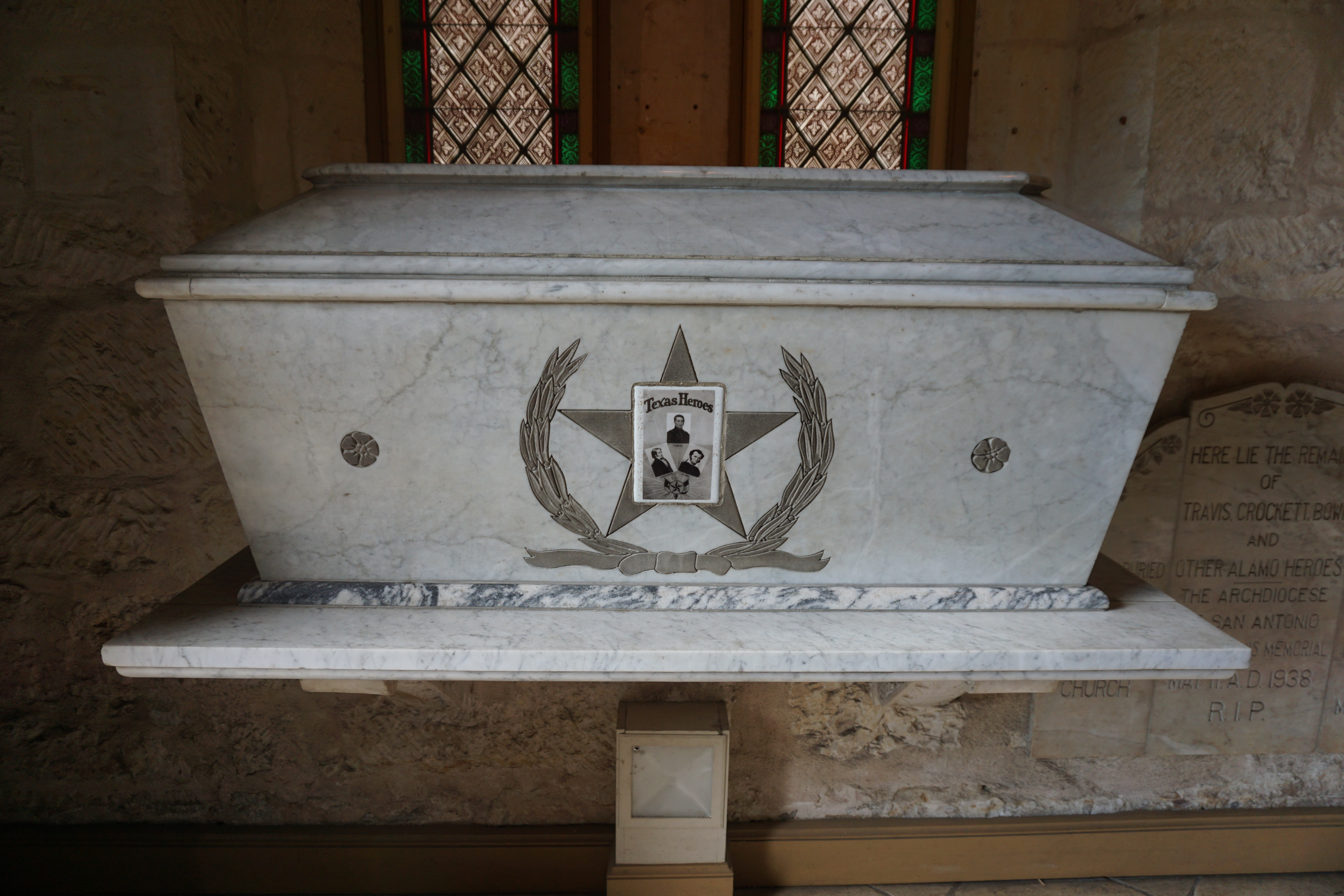 The Travis, Crockett, and Bowie sarcophagus inside San Fernando Cathedral in San Antonio, Texas (United States).